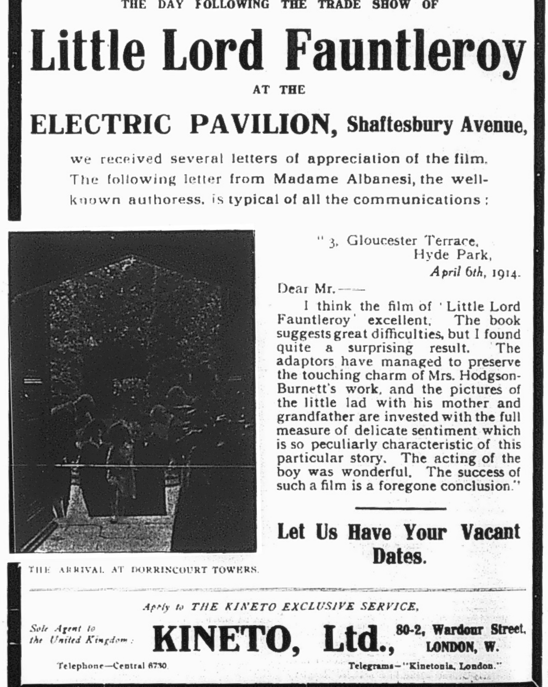 Advertisement in the April 16, 1914, edition of the British cinema trade publication Bioscope, for the 1914 silent film, Little Lord Fauntleroy